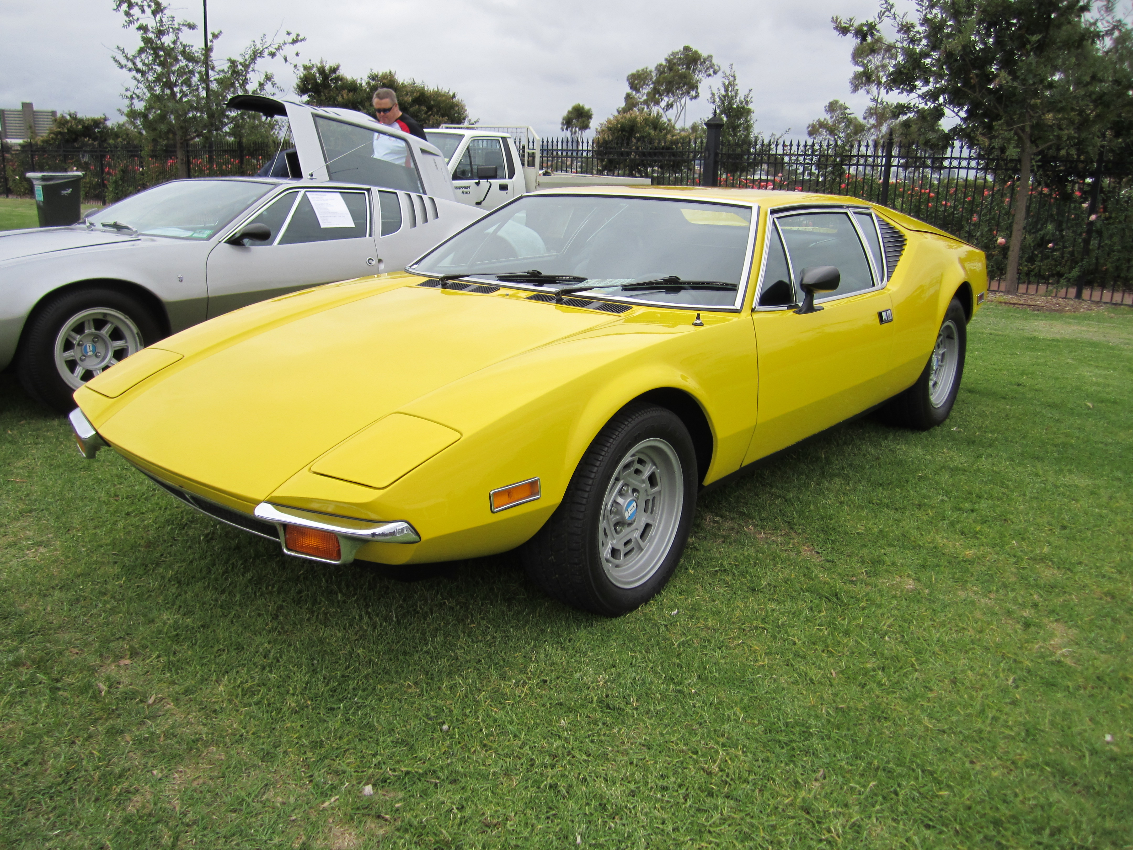 DeTomaso was an Italian company known for producing sports and luxury vehicles. The 1st Sports car was the 1963-66 Vallelunga with mid mounted Cortina engine. The 2nd was the Mangusta, built from 1966-1971, with help from Carroll Shelby, it had mid mounted 289 Ford V8 engine (until 1968, then 302) The 3rd, the 1971-93 Pantera with 351 Cleveland Ford V8. Unlike the Mangusta, which employed a steel backbone chassis, the Pantera was a steel monocoque design. 7260 were made. The Luxury Pantera L was introduced in 1972, it featured large black bumpers and the GTS with even more luxury in 1974. In 1975, the GT5, which had rivetted wheelarch extensions and the GT5S model which had blended arches and a distinctive wide-body look The last was the 1993-04 Guara (BMW V8 til 98 then Ford V8)